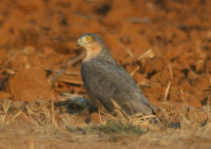 This raptor is rarely seen as it spends much of its time perched in the canopy of tall trees. I was lucky to find this one just after it had captured something, late one afternoon. Location: Cedara Farm, Pietermaritzburg, KwaZulu-Natal, South Africa.